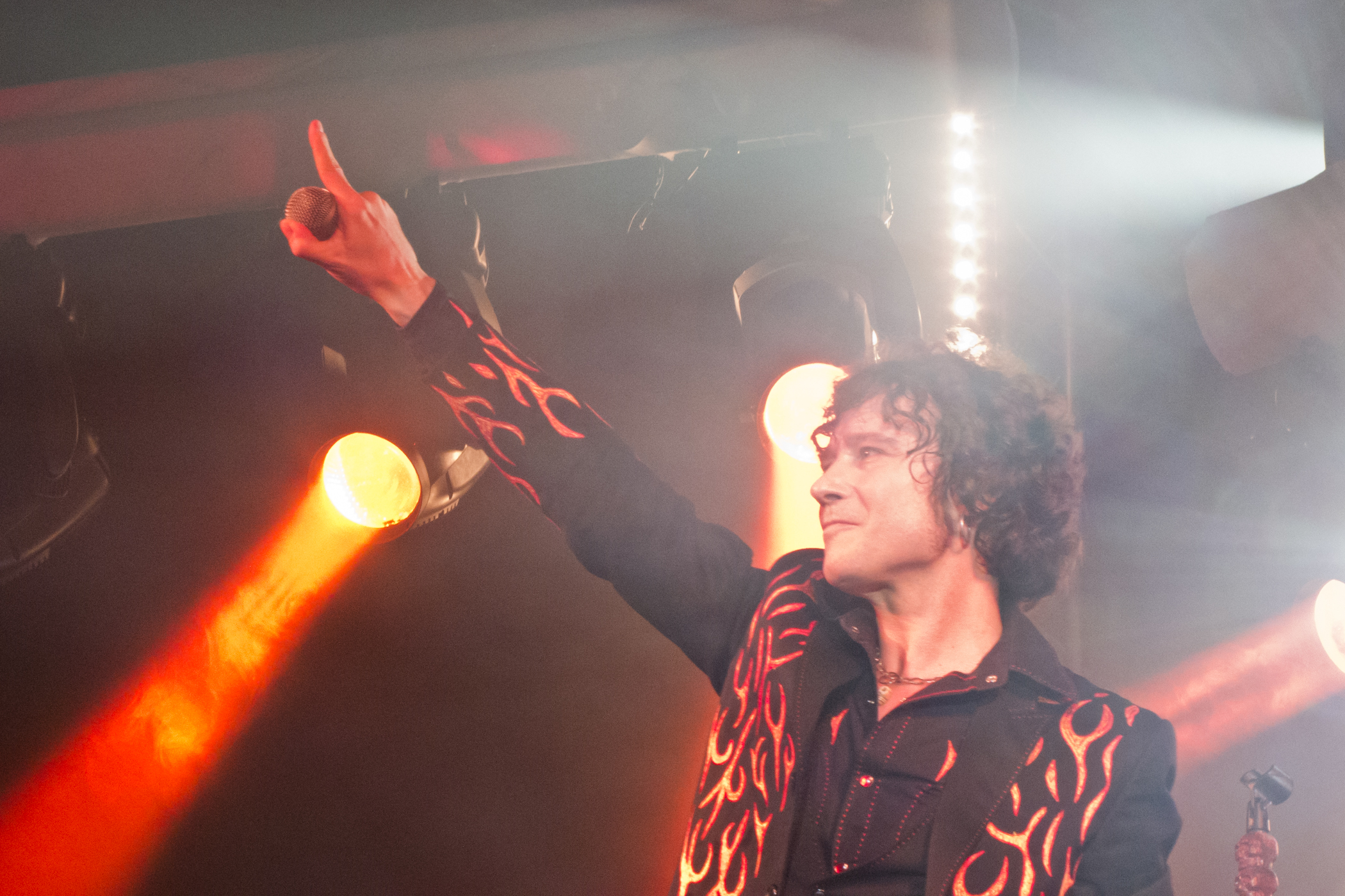 Enrique Bunbury during a concert in 2012.